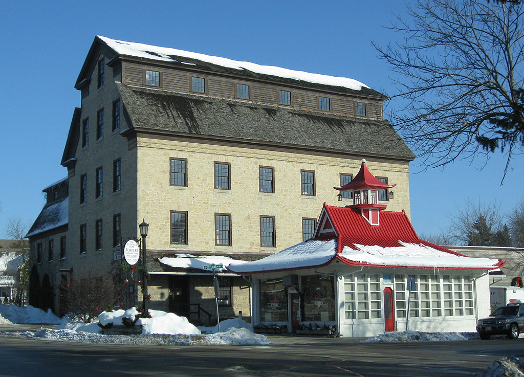 The Cedarburg Mill and The Pagoda in downtown Cedarburg, Wisconsin. I took this photo on December 19, 2007 with a Canon SD850. -Freekee (talk) 05:03, 20 April 2008 (UTC)